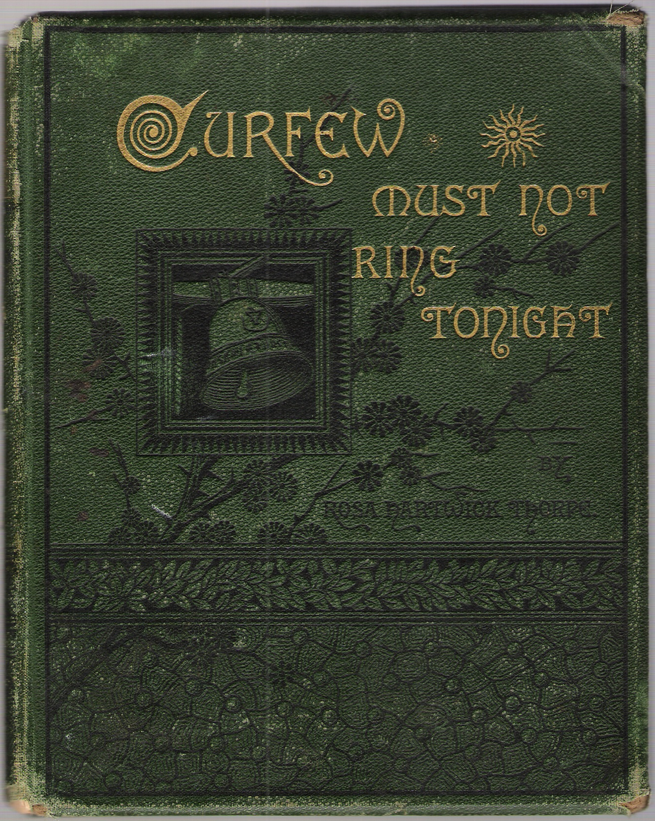 This is the cover art that I scanned for the Public domain book Curfew Must Not Ring Tonight published in 1882, a poemic book written by Rose Hartwick Thorpe. This shows the era and style of the book which was publication in the 1890's.